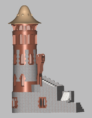 Image of the "Torre La Miranda" Reconstruction Project. In 1996, the Asociacion Pro Miranda commissioned a project to rebuild it based on existing material: photos, the drawing by Francesc Berenguer, the floor plan and the elevation of hhe door and the entrance gate, designated as "Barri d'entrada de Can Mateu", September 1961. The author of the project was Joan Bassegoda Nonell, director of the Gaudí Chair, with the collaboration of Bibiana Sciortino and Mario Andruet, architects.This digital project was part of the previous studies of the Doctoral Thesis "The structural concepts of Gaudí". (Sciortino, Bibiana, Los Conceptos estructurales de Gaudí, Doctoral Thesis, Universitat Politècnica de Catalunya, Barcelona 2004). The image belongs to this project.